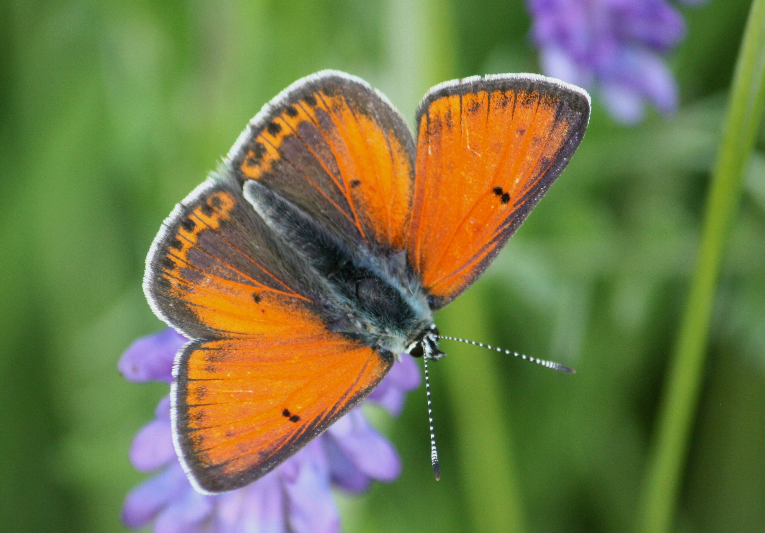 Purple-edged Copper (Lycaena hippothoe) can be seen in Kerava, Finland.